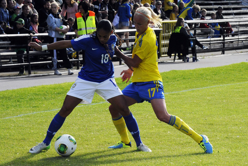 Brazilian footballer Adriane dos Santos (18) holds off Sweden's Caroline Seger (17) during an international friendly in June 2013